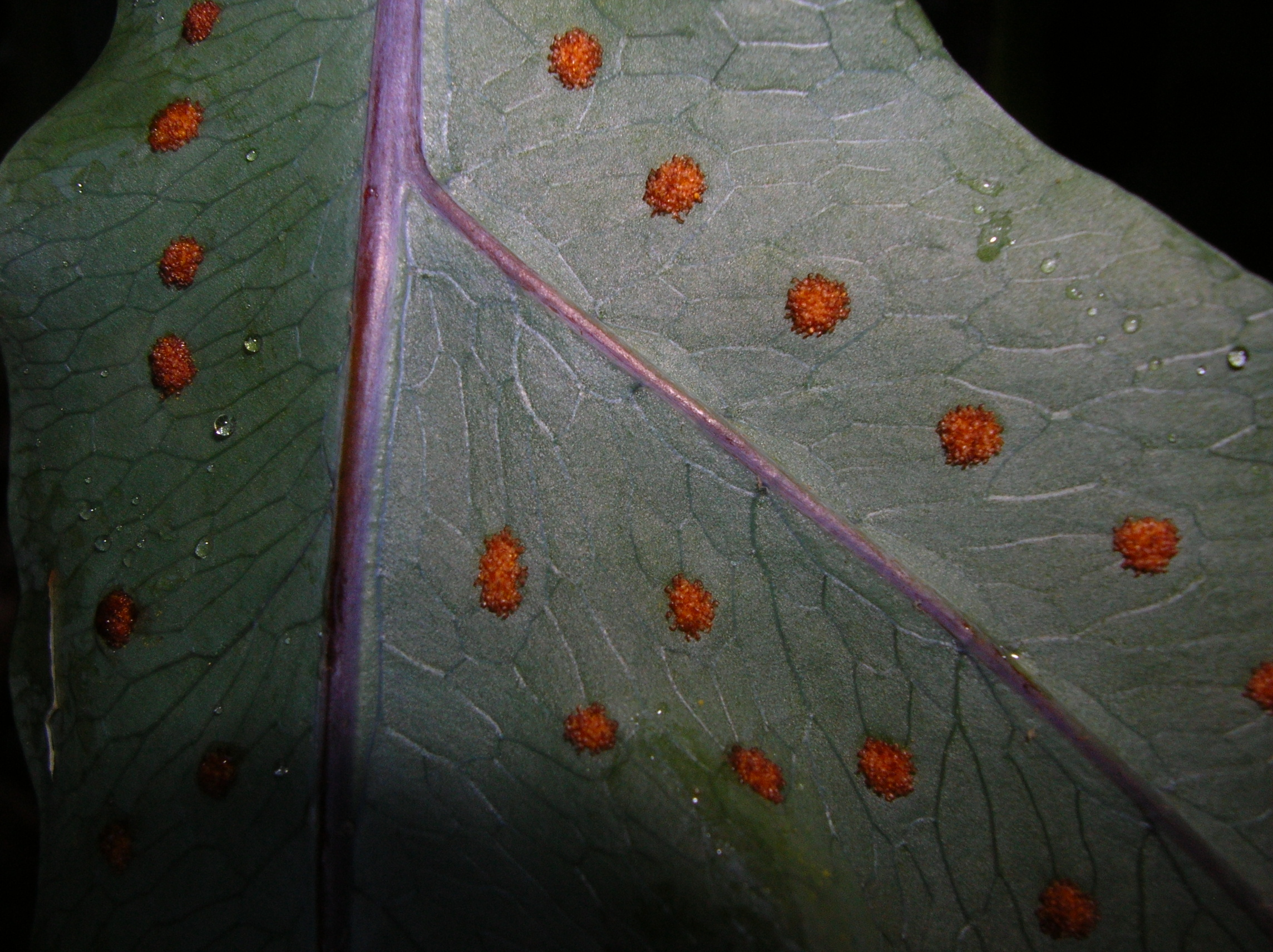 Phlebodium aureum (spores). Location: Maui, Waikamoi trail